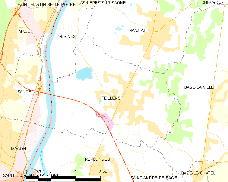 Map of French commune: Feillens Map commune FR insee code 01159.png